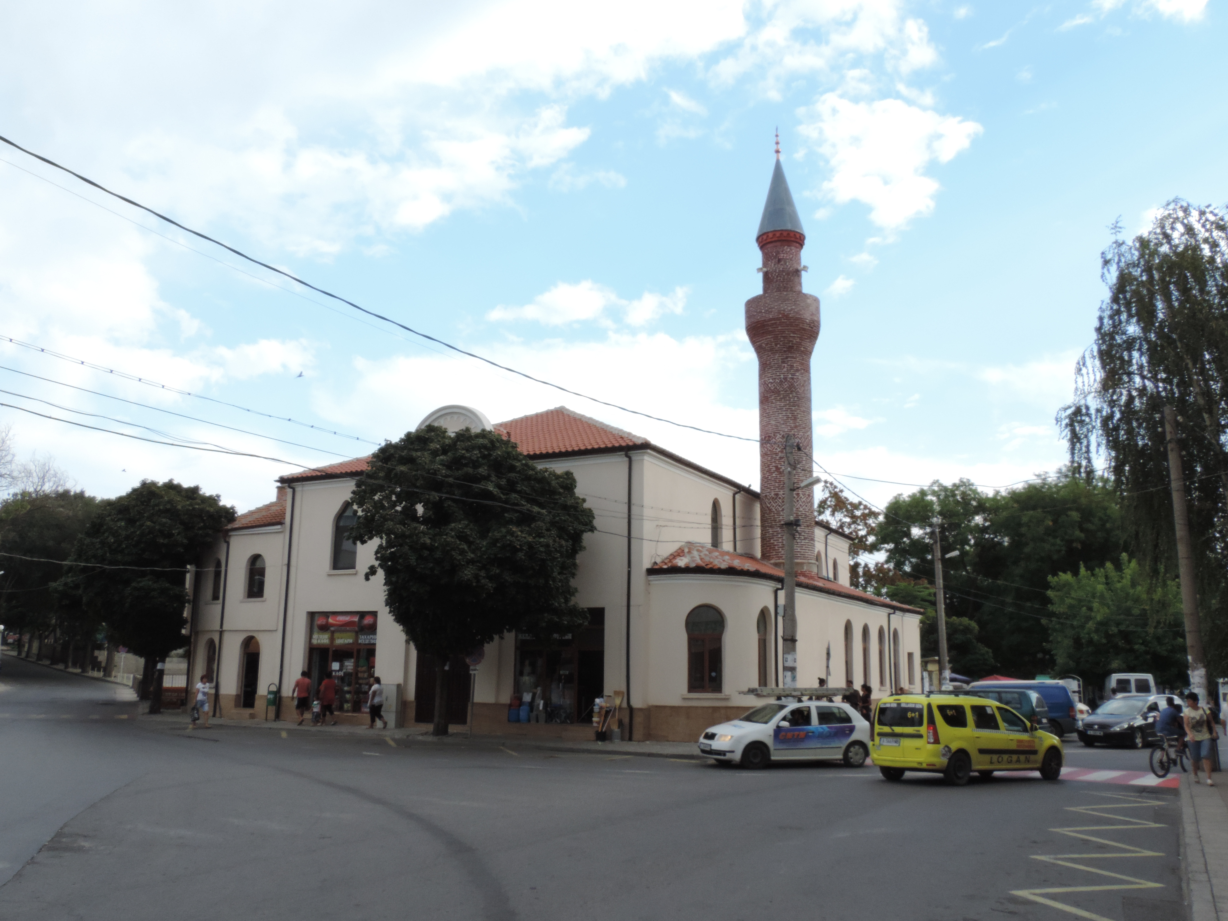 The mosque in the centre of Aytos, Bulgaria